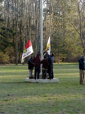 Scouts (from Troops 70 & 152, Philadelphia) at Treasure Island Scout Reservation raising the colors